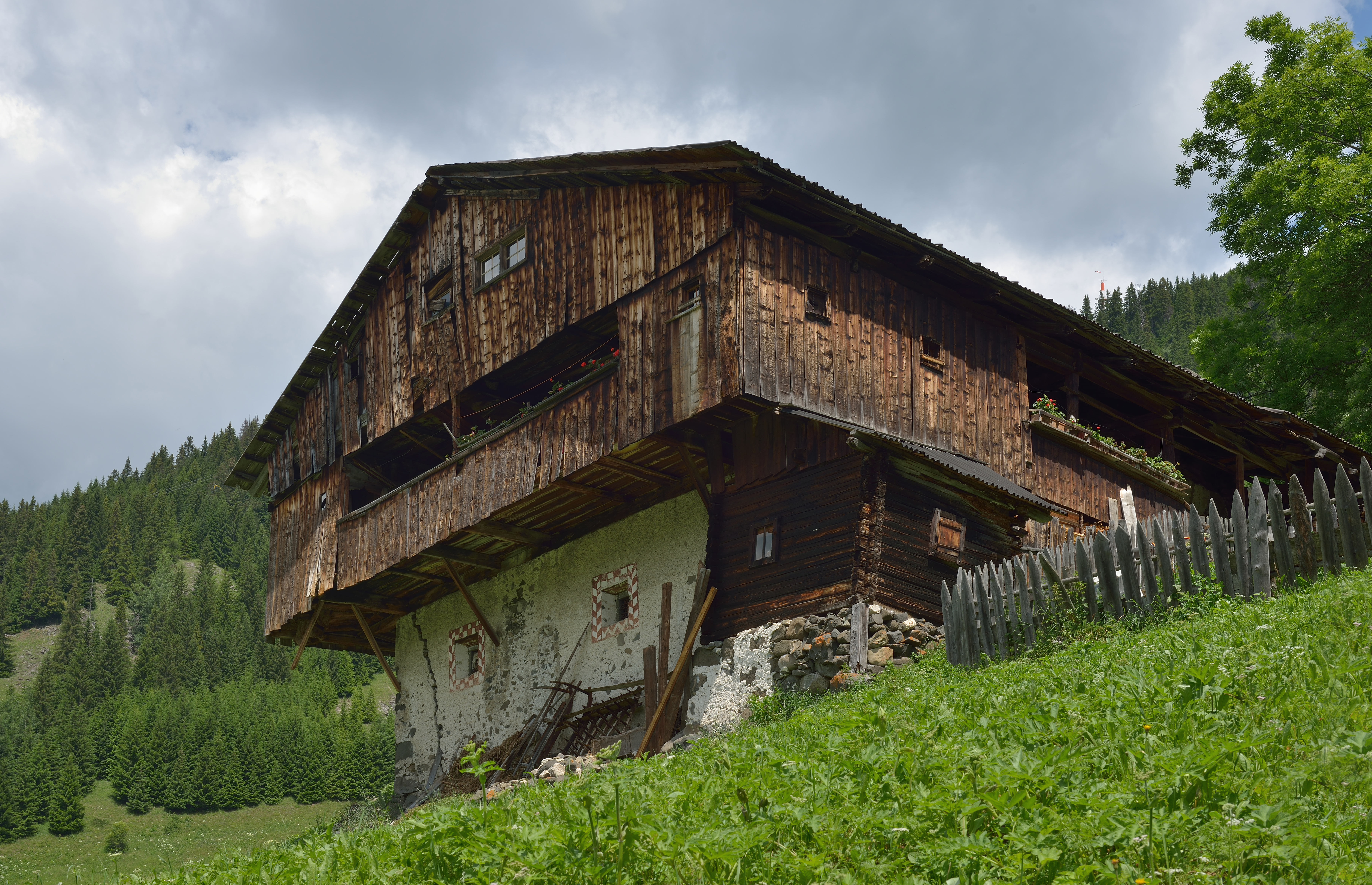 Farmhouse "Plaza d’Sott" in Corvara